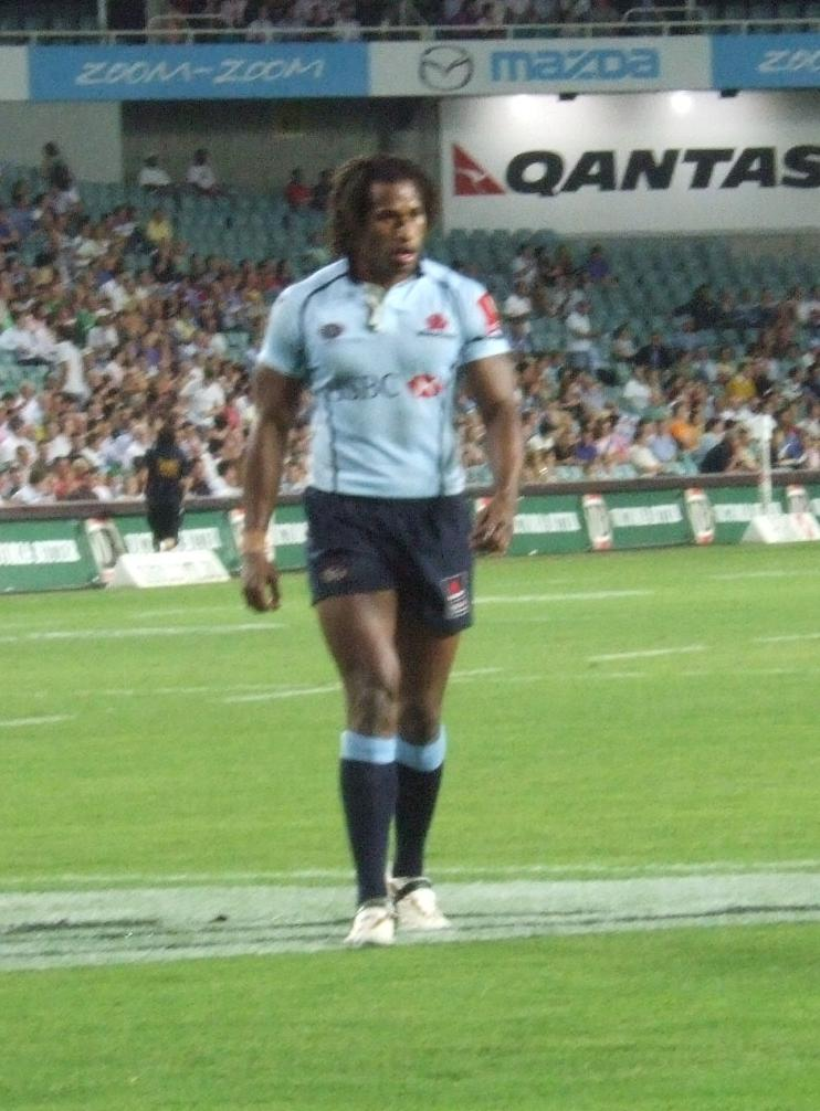 Lote Tuqiri, playing for the Waratahs against the Force